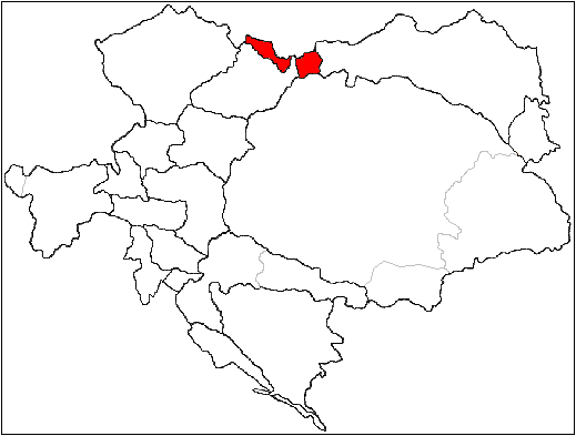 Austrian Silesia (the area in red) on the map of Austria-Hungary.